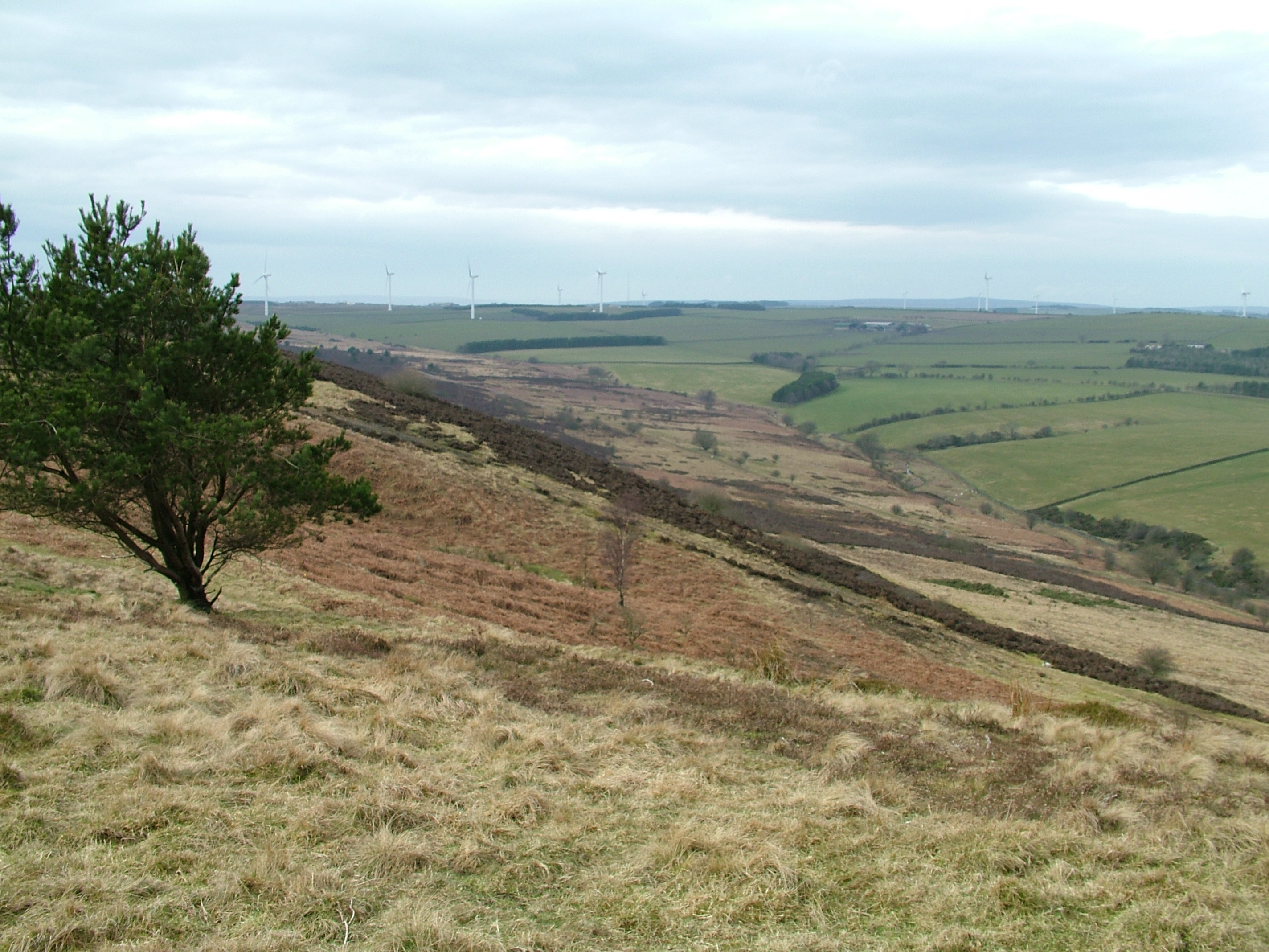 View of Hedleyhope Fell Nature Reserve, County Durham, looking south-east